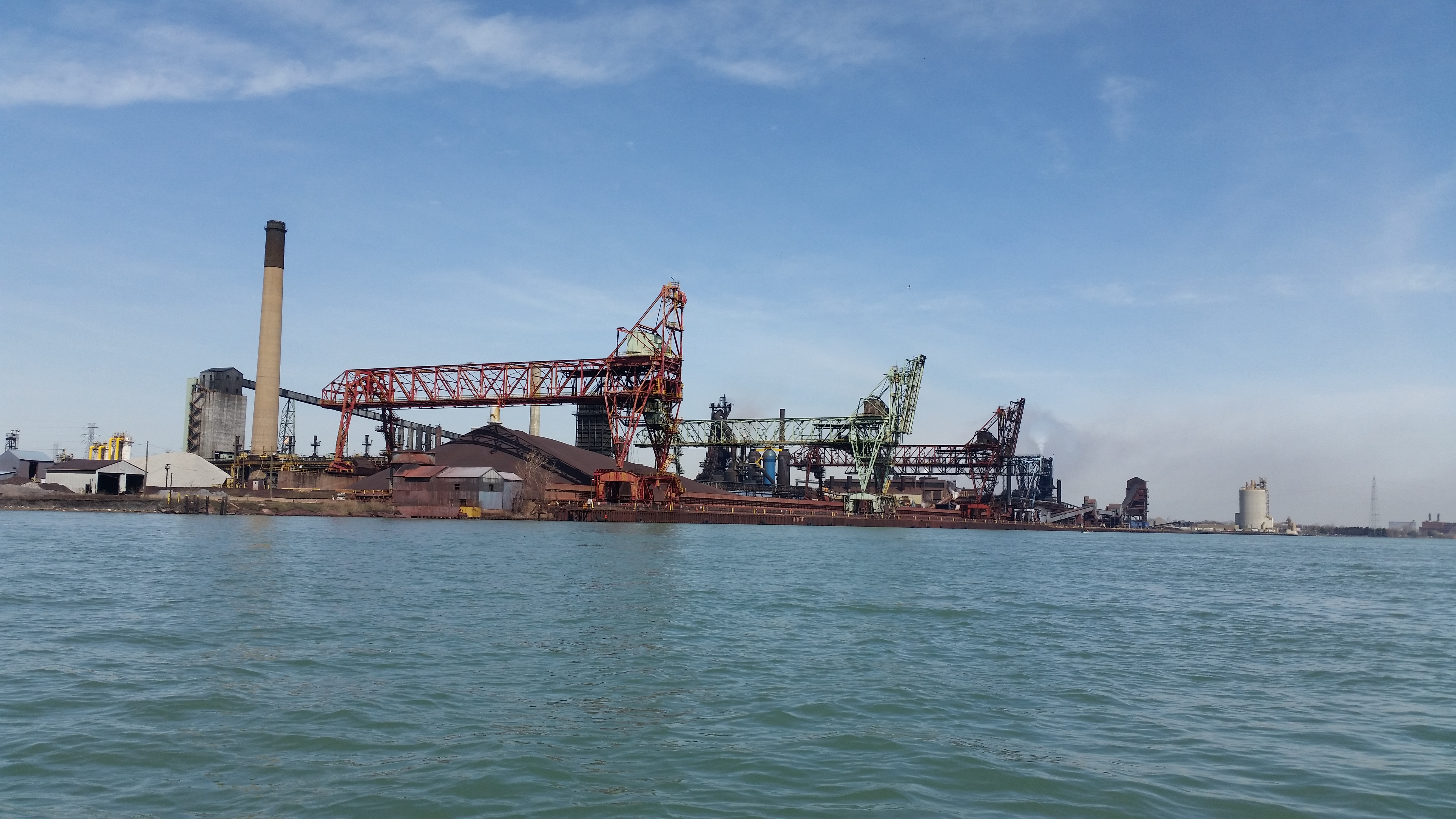 Depicted place: Zug Island